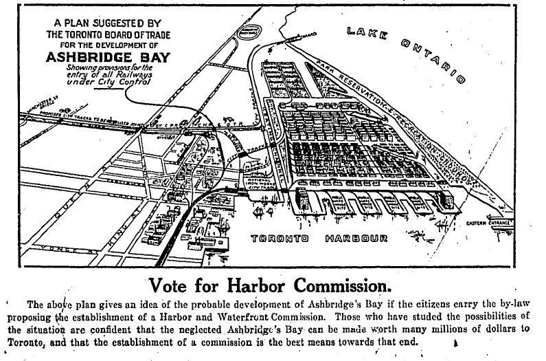 Advertisement run by the Toronto Board of Trade in support of a public referendum to inaugurate the Toronto Harbour Commission.